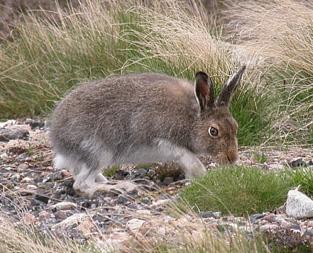 Mountain Hare (Lepus timidus), Findhorn Valley, Scotland, May 2004. Image created by Andrew Easton, May 2004. I, the creator of this image, hereby release it into the public domain. This applies worldwide. first upload: 27 December 2004 - Wikipedia by User:A.C.Easton